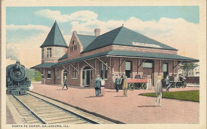 Postcard of Galesburg, Illinois Santa Fe station, now torn down